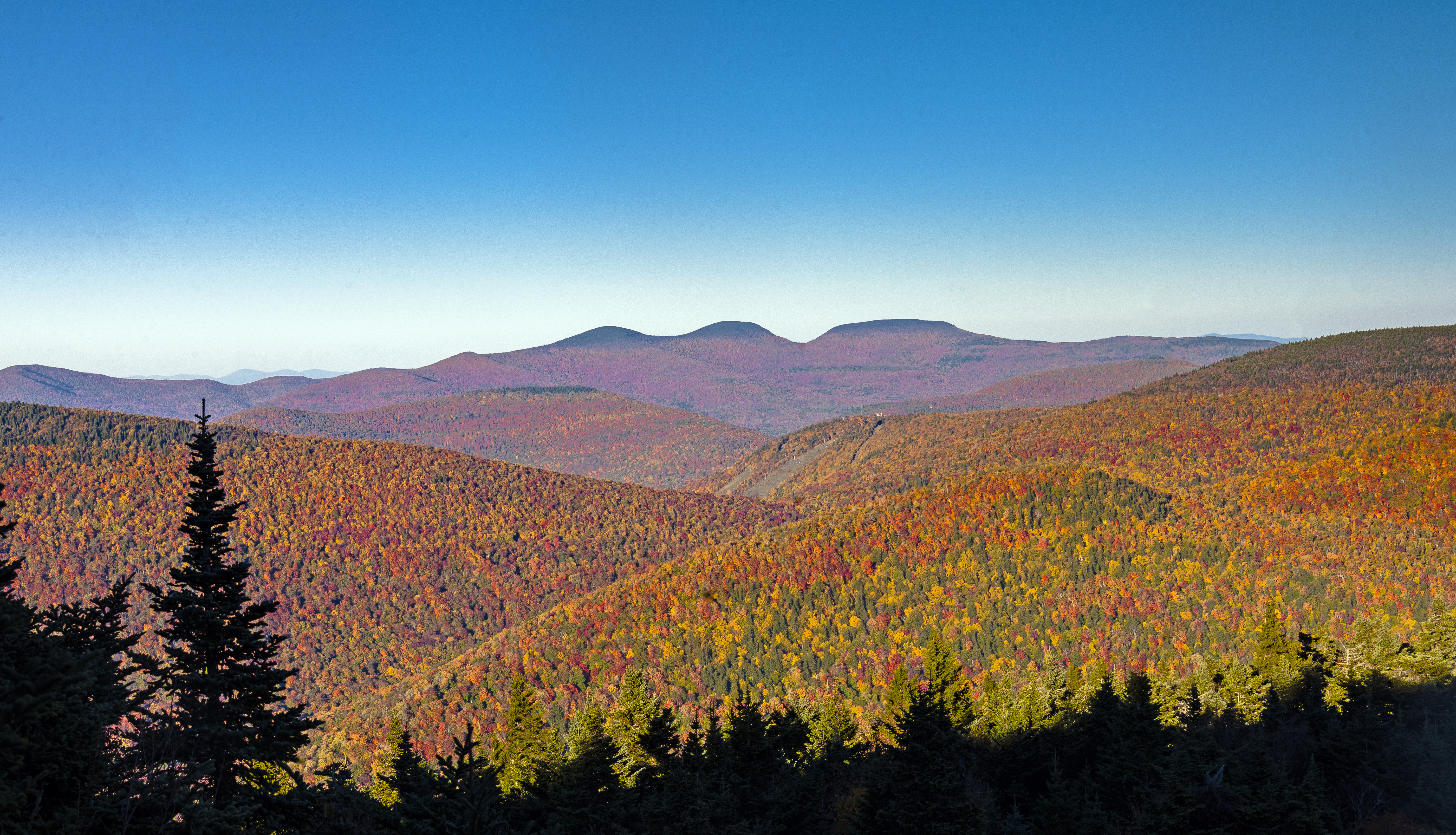 View towards the Blackhead Range in New York's Catskill Mountains from Buck Ridge Lookout near the summit of West Kill Mountain, with trees at full autumn color